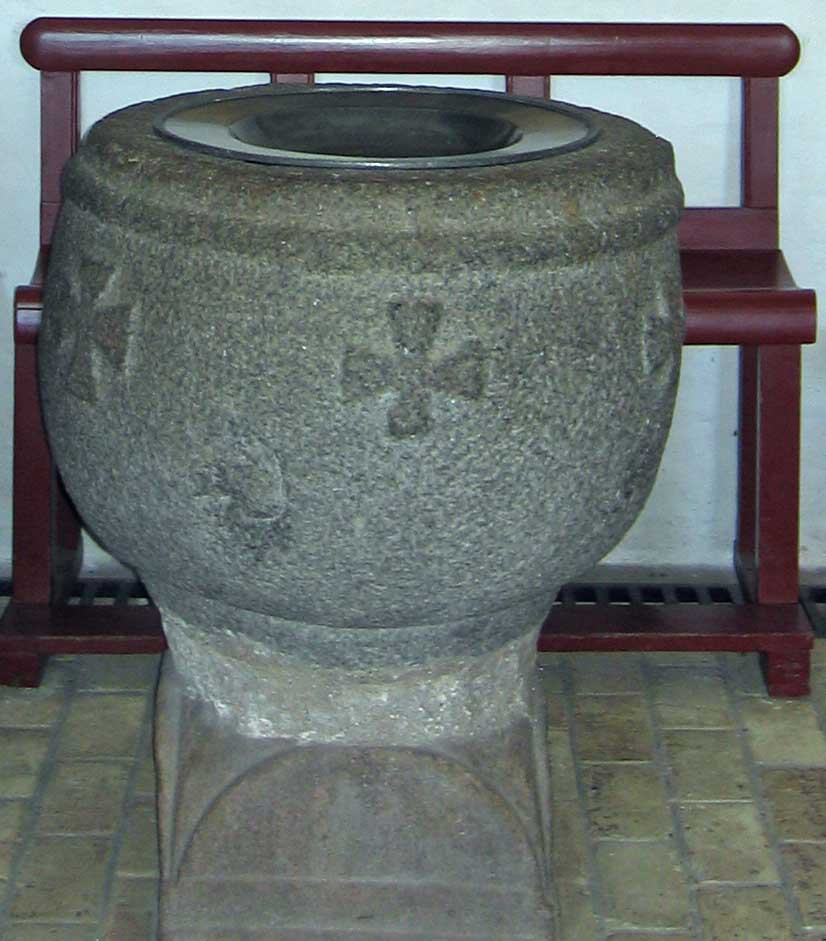 Tibirke Church, Tibirke parish, Holbo Herred, Frederiksborg County, Denmark.